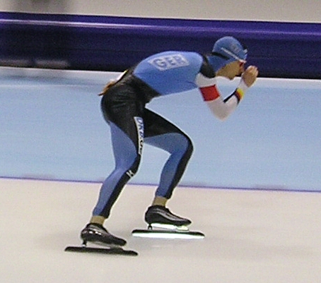 Stefan Heythausen (GER) in action at the WCh Allround in Thialf (Heerenveen, The Netherlands)